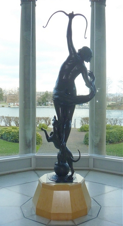 Diana of the Chase (1922) by Anna Hyatt Huntington (American, 1876–1973) was a gift to the museum by the artist and her husband Archer Huntington in 1941 in honor of the museum’s tenth anniversary. Huntington was well known for her bronze sculptures of animal and human figures. The eight-foot tall bronze sculpture of the goddess Diana is positioned in the museum’s rotunda overlooking City Park Lake.